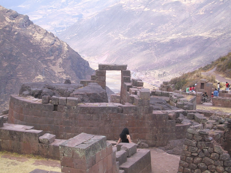 Temple of the Sun at Ollantaytambo, Peru